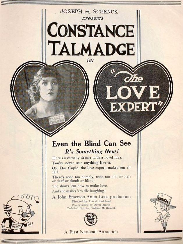 Advertisement for the American comedy romance film The Love Expert (1920) with Constance Talmadge, on page 3233 of the April 10, 1920 Motion Picture News.